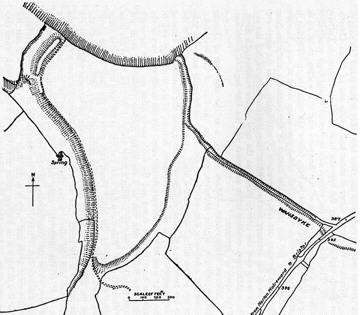 Map of earthworks at Maes Knoll, Somerset, England.